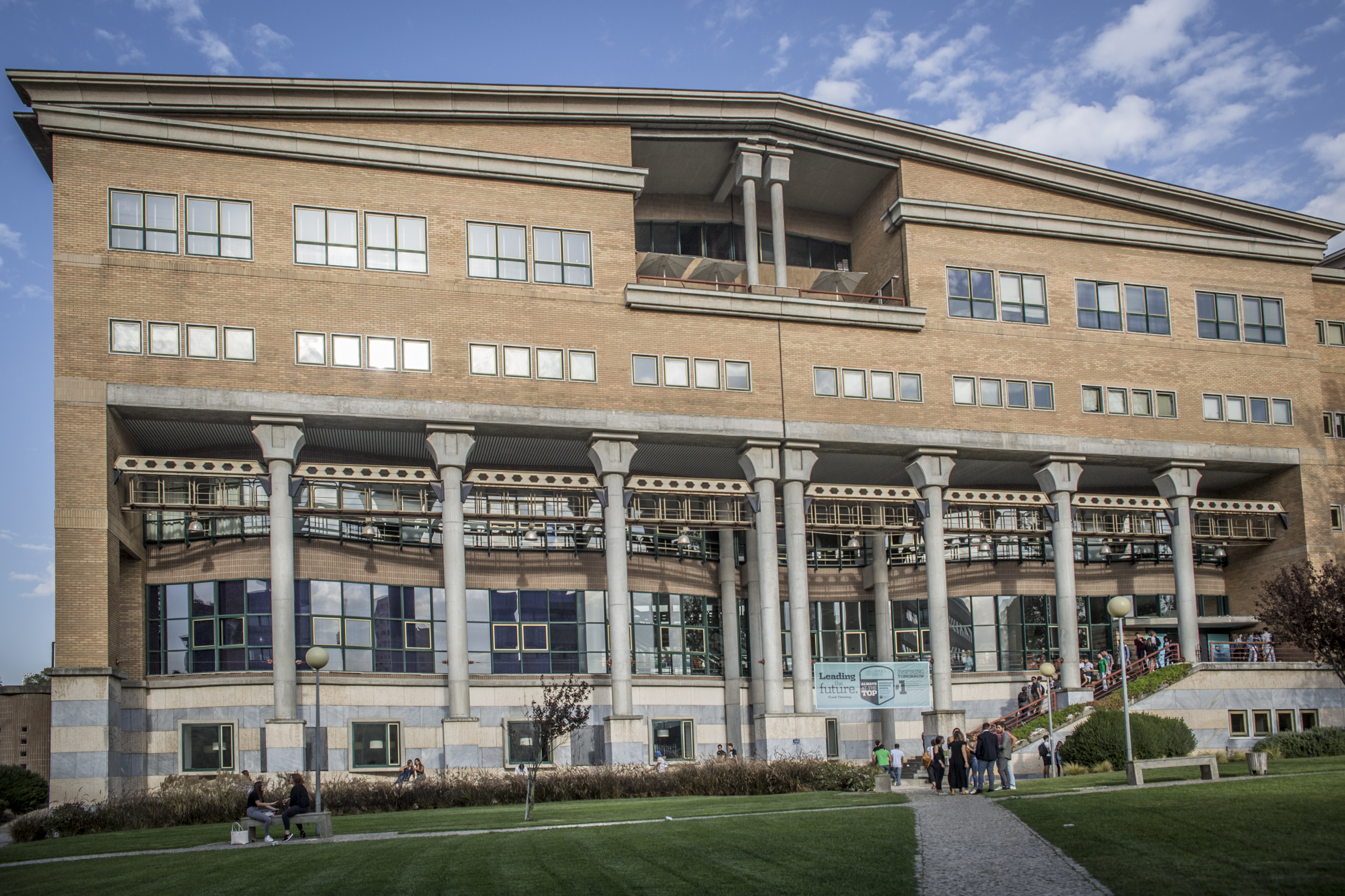 UCP Católica Lisbon School of Business and Economics